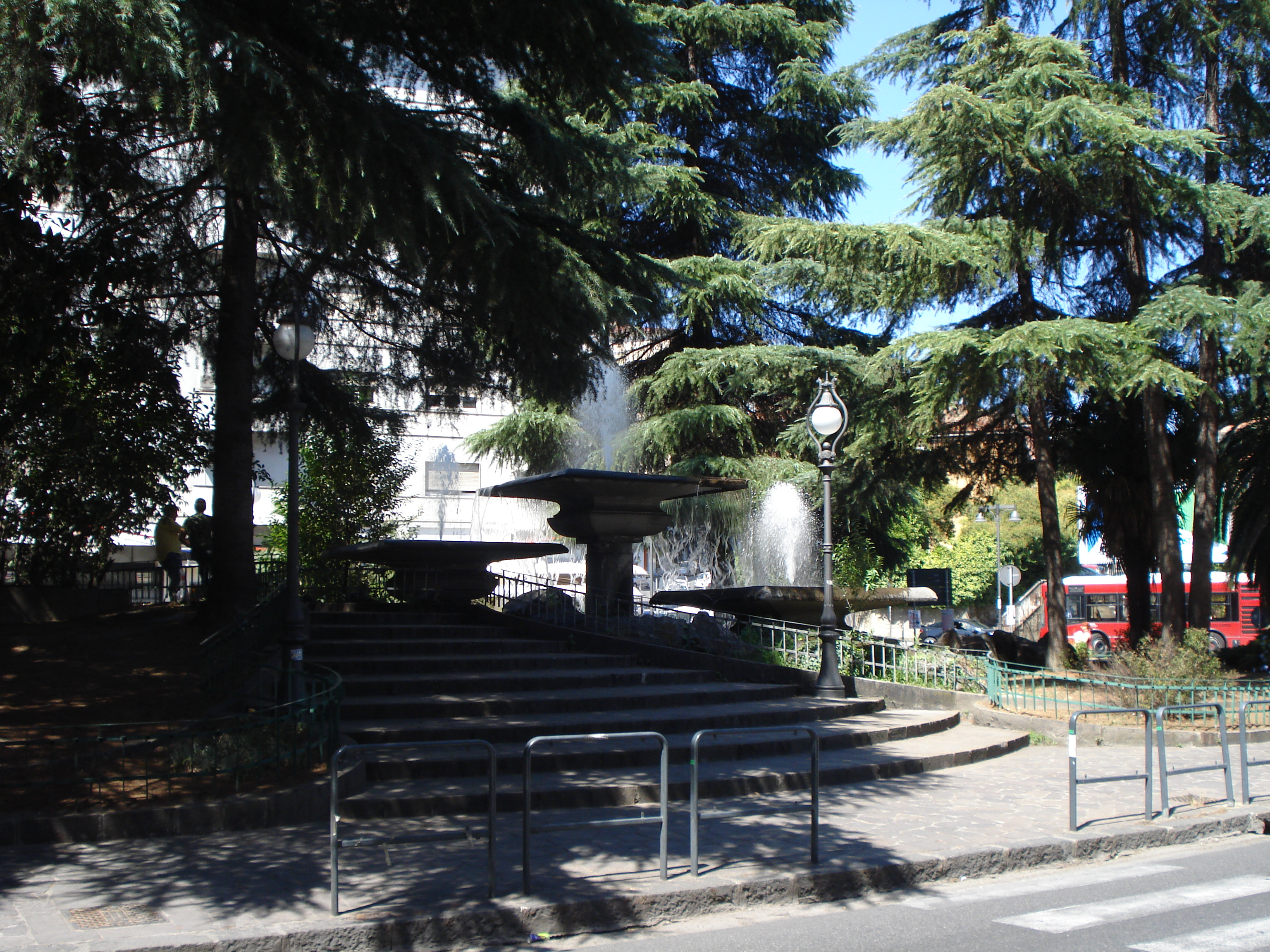 Piazza Europa in Cosenza